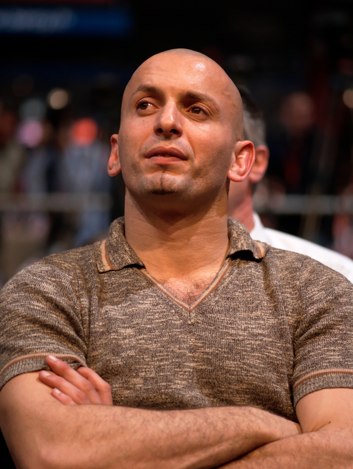 Judo Olympic champion Djamel Bouras at a rally for François Bayrou, centrist candidate in the 2007 French presidential election, heald on Apr. 18, 2007 at Paris Bercy.